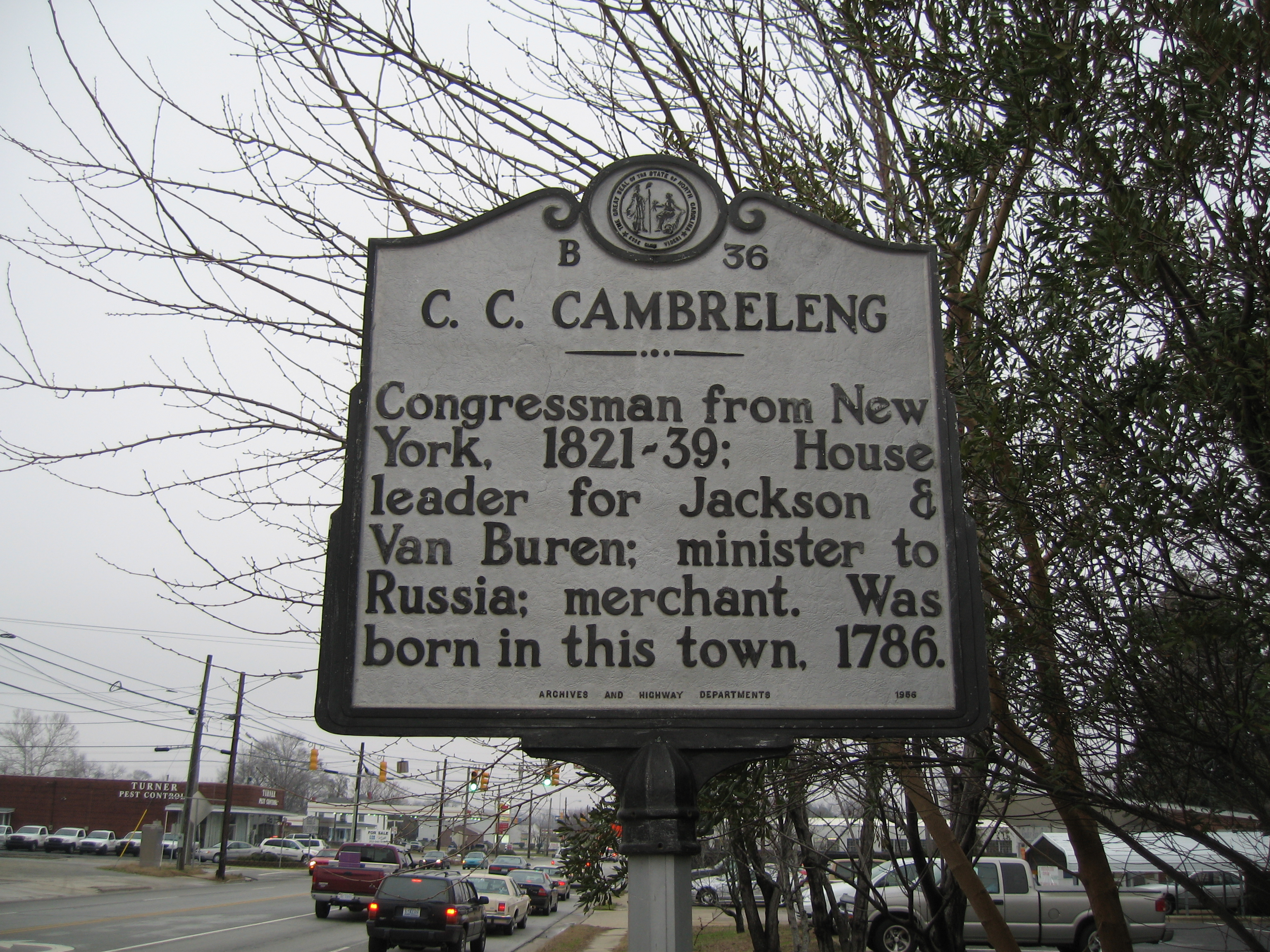 Historical marker designating the birthplace of Churchill C. Cambreleng. This marker is located in Washington, North Carolina on the east side of North Bridge Street (U.S. Route 17) just north of West Main Street.